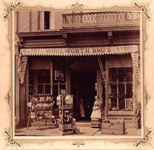 Identified as Scranton store. c. 1880-1882. This was the second successful store for the Woolworth Brothers. Charles Sumner "Sum" Woolworth became full owner in 1882 and lived in Scranton, PA, the rest of his life. Sum became Chairman of F. W. Woolworth Company in 1919, after the death of his brother, Frank.